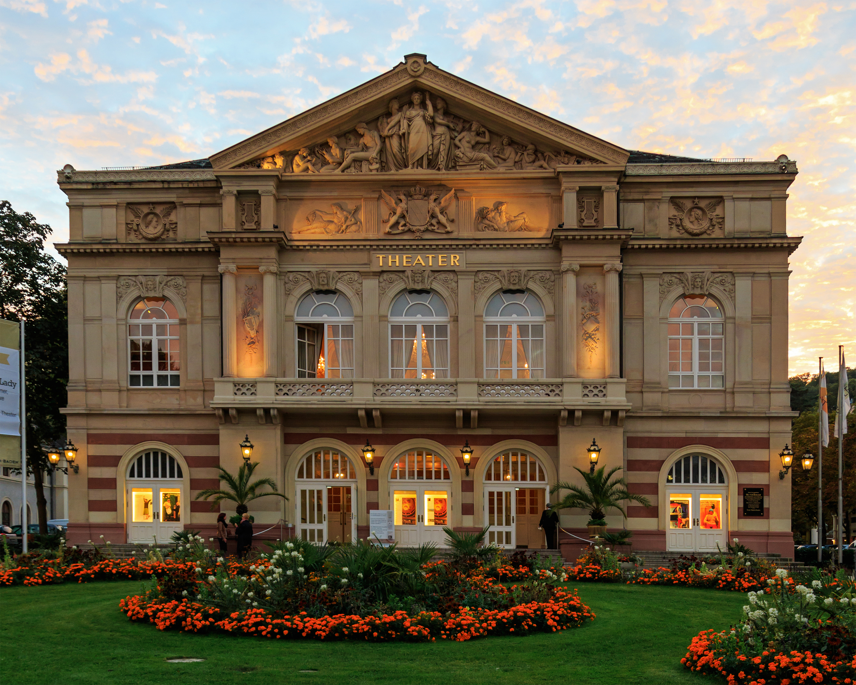 The city theatre in Baden-Baden (BW, Germany).